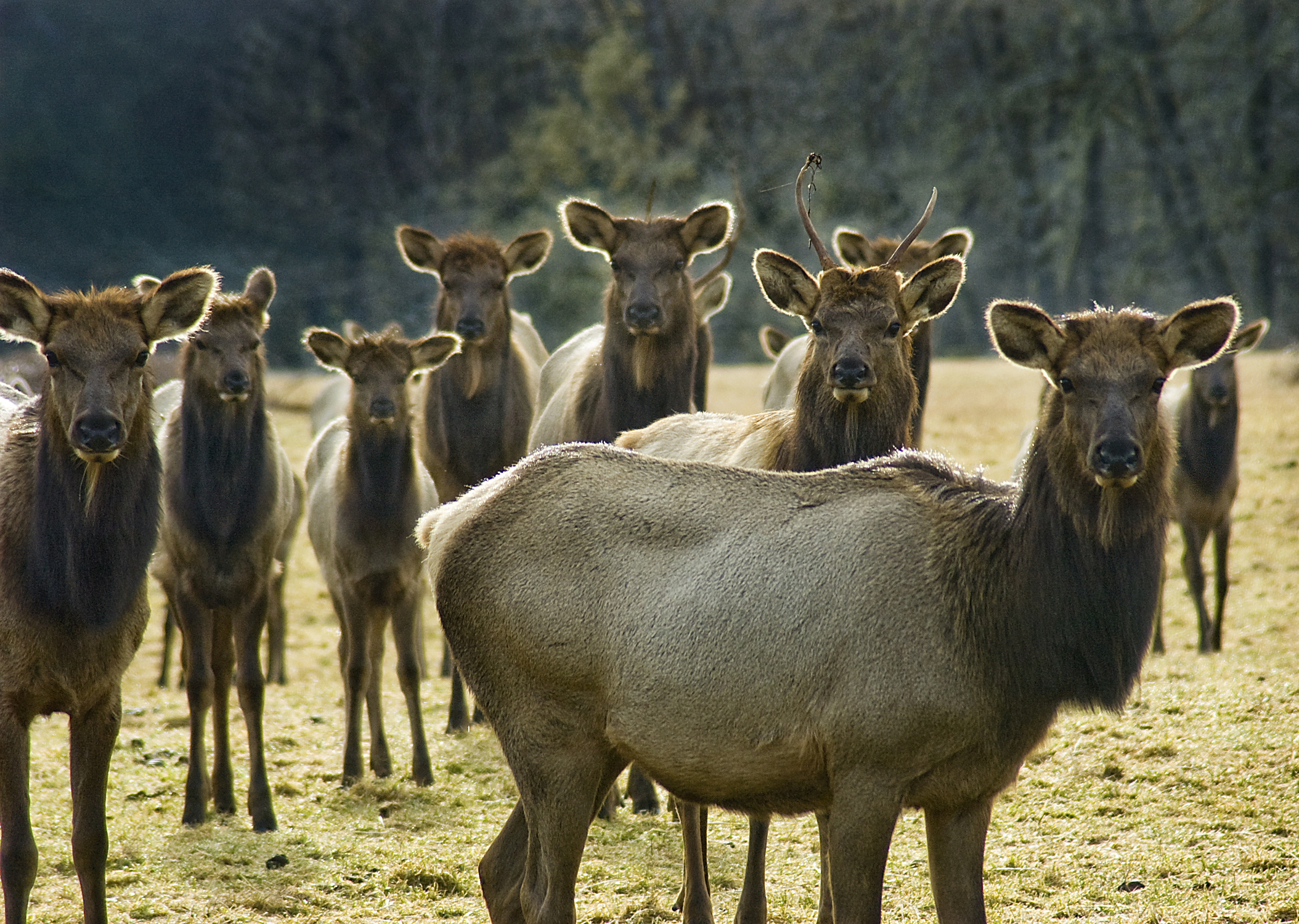 Curious cows and calves come in for a closer look at Oregon's Jewell Meadows Wildlife Area.